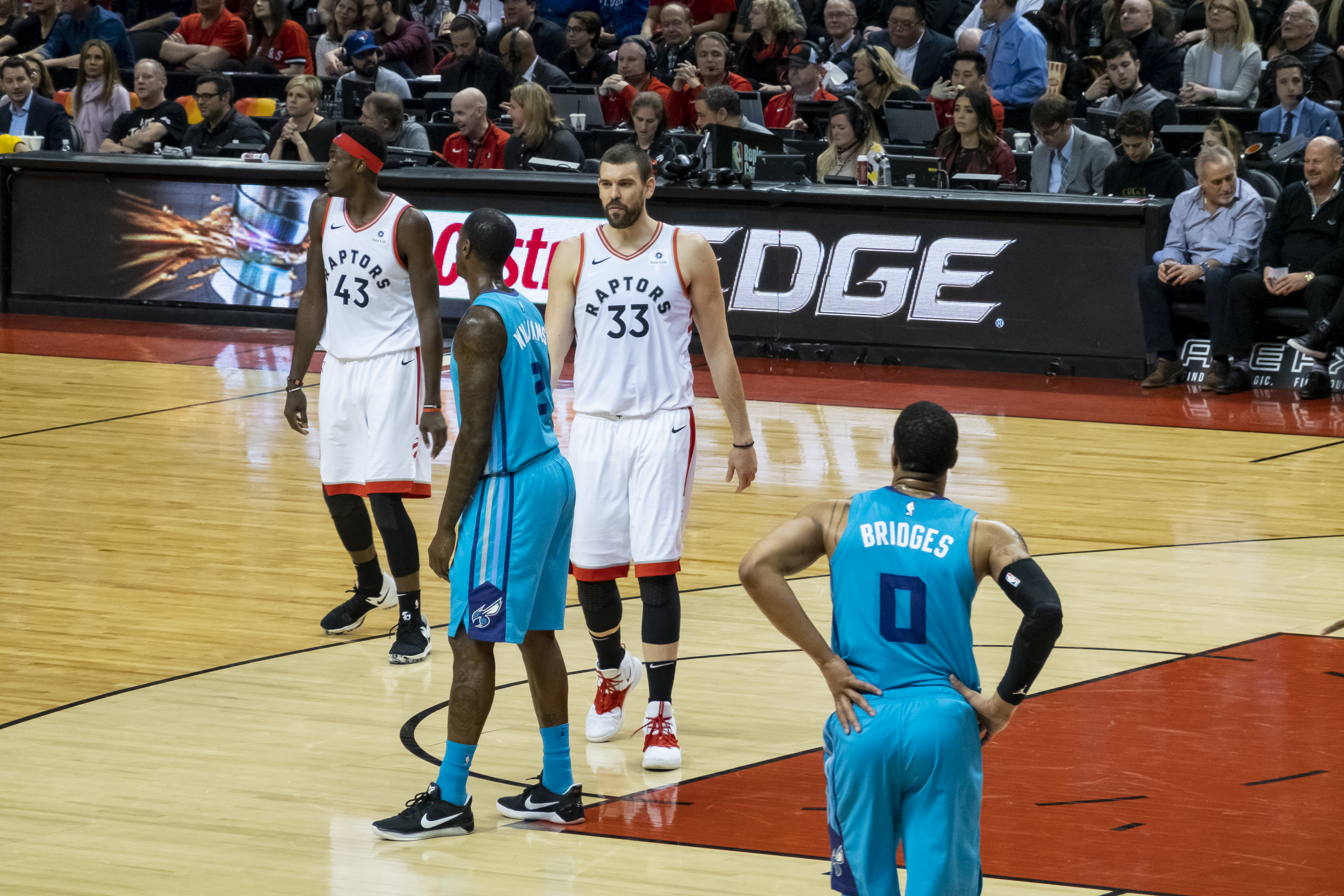 Marc Gasol playing for Toronto Raptors in 2019 v Charlotte Scotiabank Arena